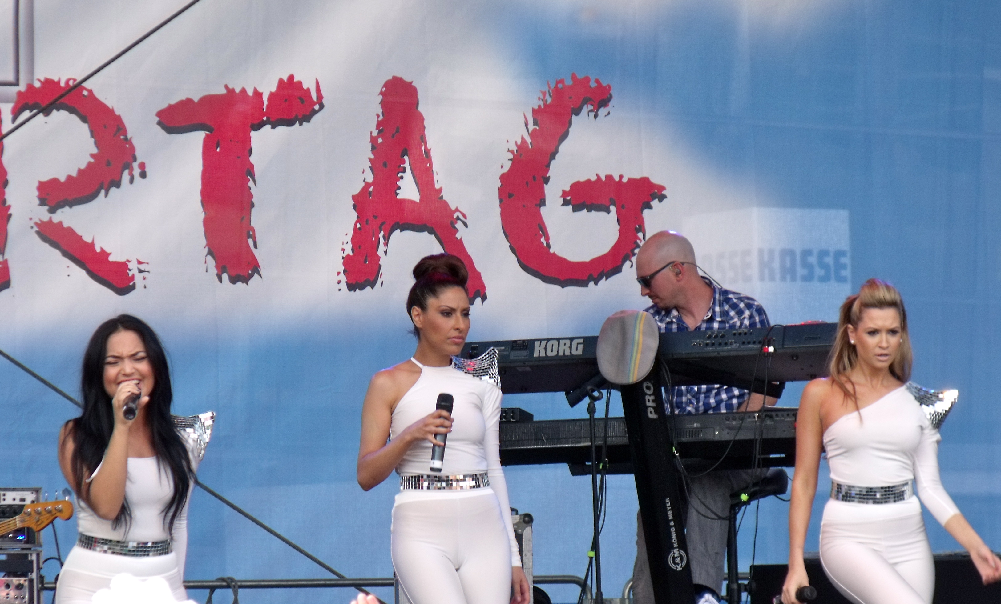 Monrose